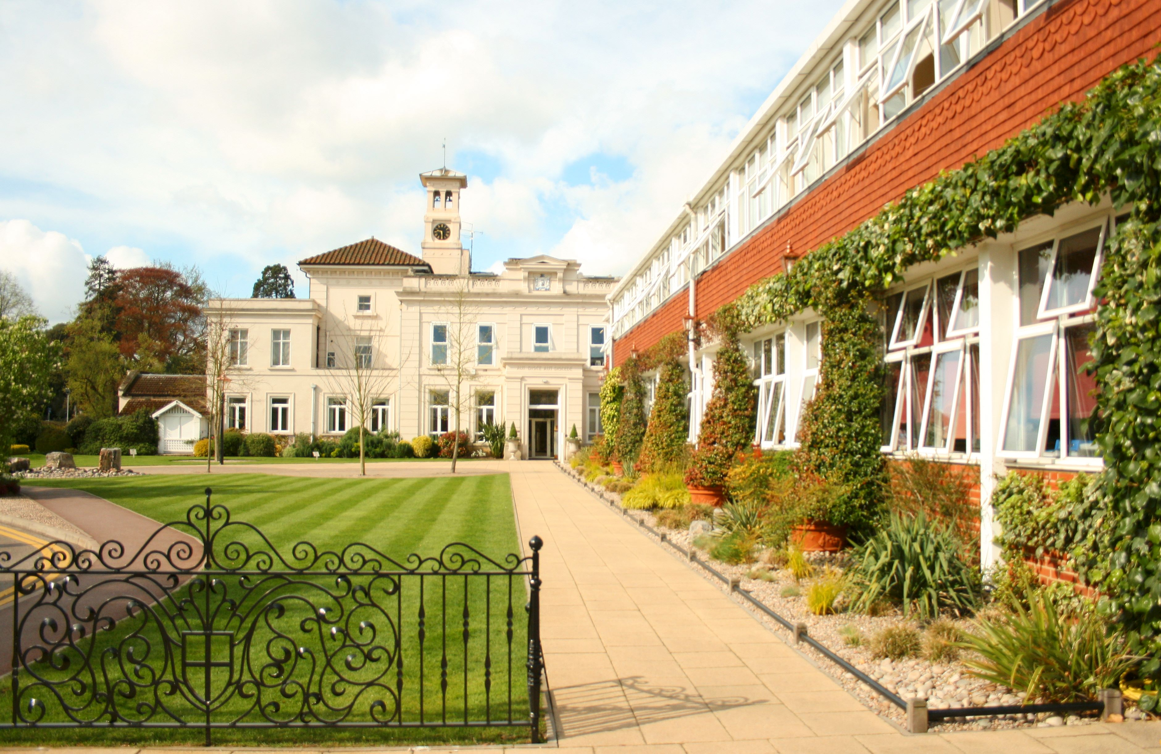 The entrance to St. George's College Weybridge, UK.